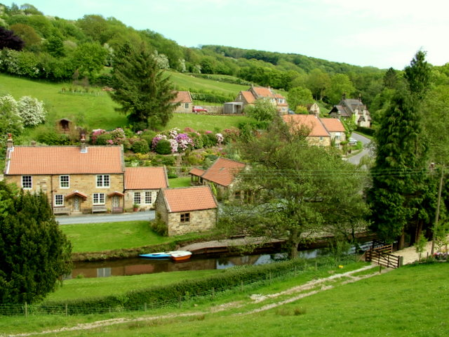 The Village of Littlebeck The old chapel can be seen to the far right.